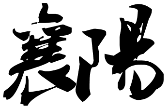 Xiangyang in Chinese